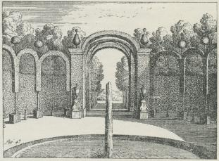 Arch shaped hedge